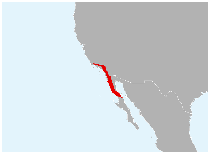 Range map for Anaxyrys californicus